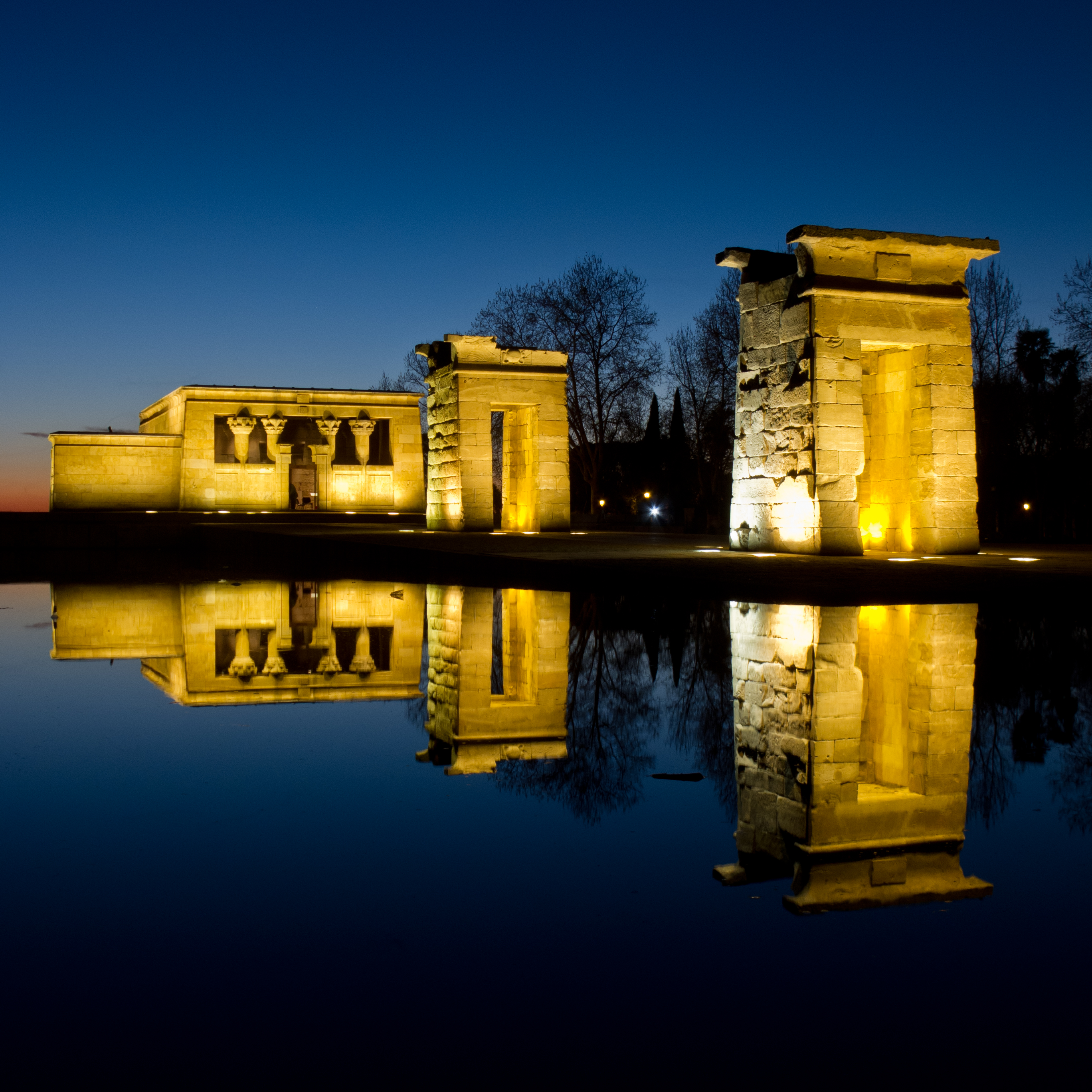 Temple of Debod, Madrid, Spain.